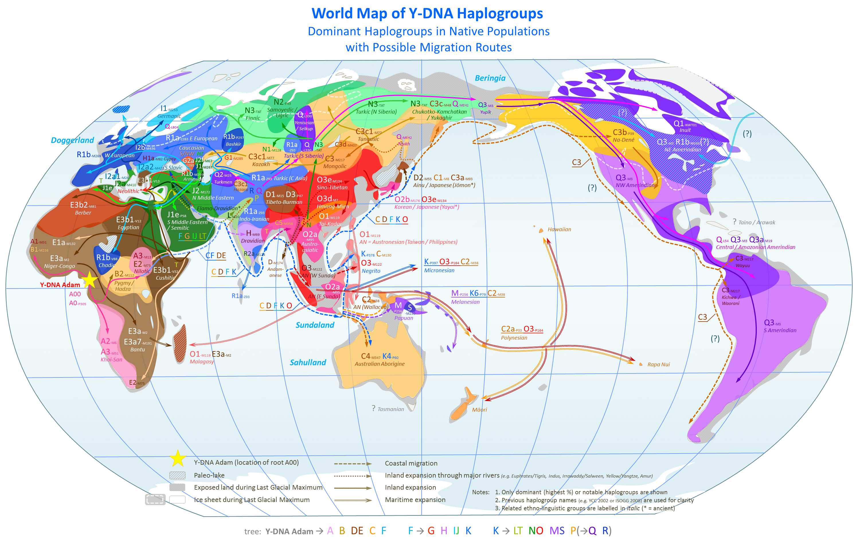 World Map of Y-Chromosome Haplogroups - Dominant Haplogroups in Pre-Colonial Populations with Possible Migrations Routes Behance page Notes: The Y-DNA haplogroup(s) with the highest % in that area (or is notable) Population/language/region name in which the haplogroup is the majority or the genetic marker of movement Migration routes are drawn according to Coastal Migration model (initially coastal route, then follow major rivers) the indication of "Y-chromosome Adam" near Cameroon is inspired by the discovery of basal A00 and A0 in 2013 A few populations with no data available (extinct) are marked "?" Haplogroup names of YCC 2002 are used for clarity (names change every year) Inspired by Europe haplogroup map by Robertius World haplogroup map by Maulucioni